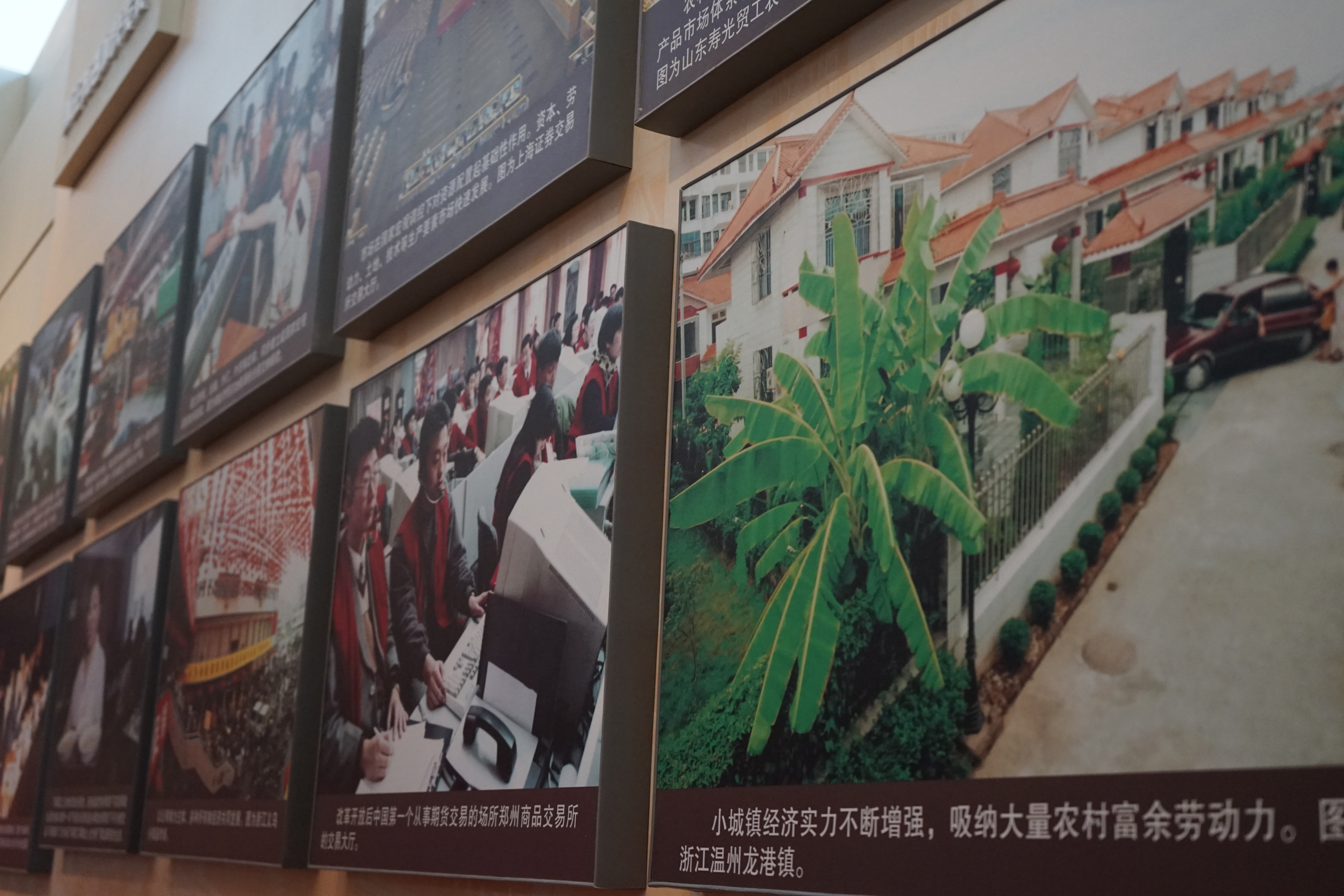 Introduction of Longgang in the China National Museum